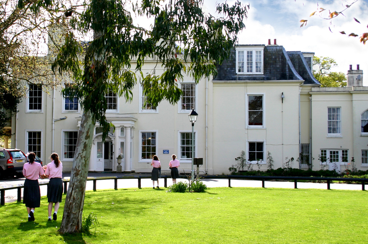 Image of West Hill Park School Main Building